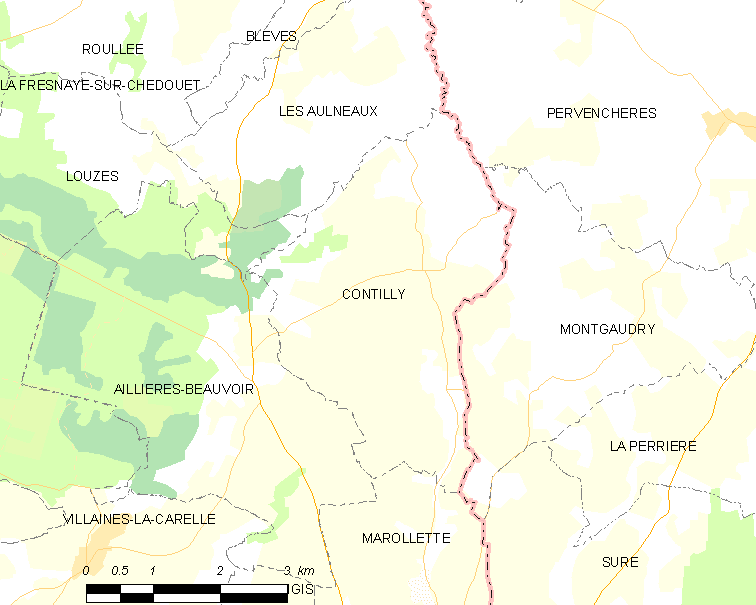 Map of French municipality